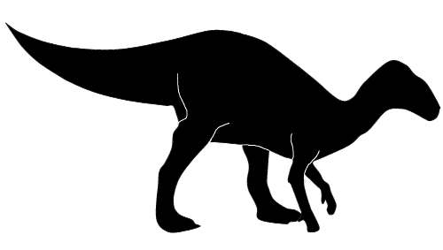 silhouette d'ornithopode